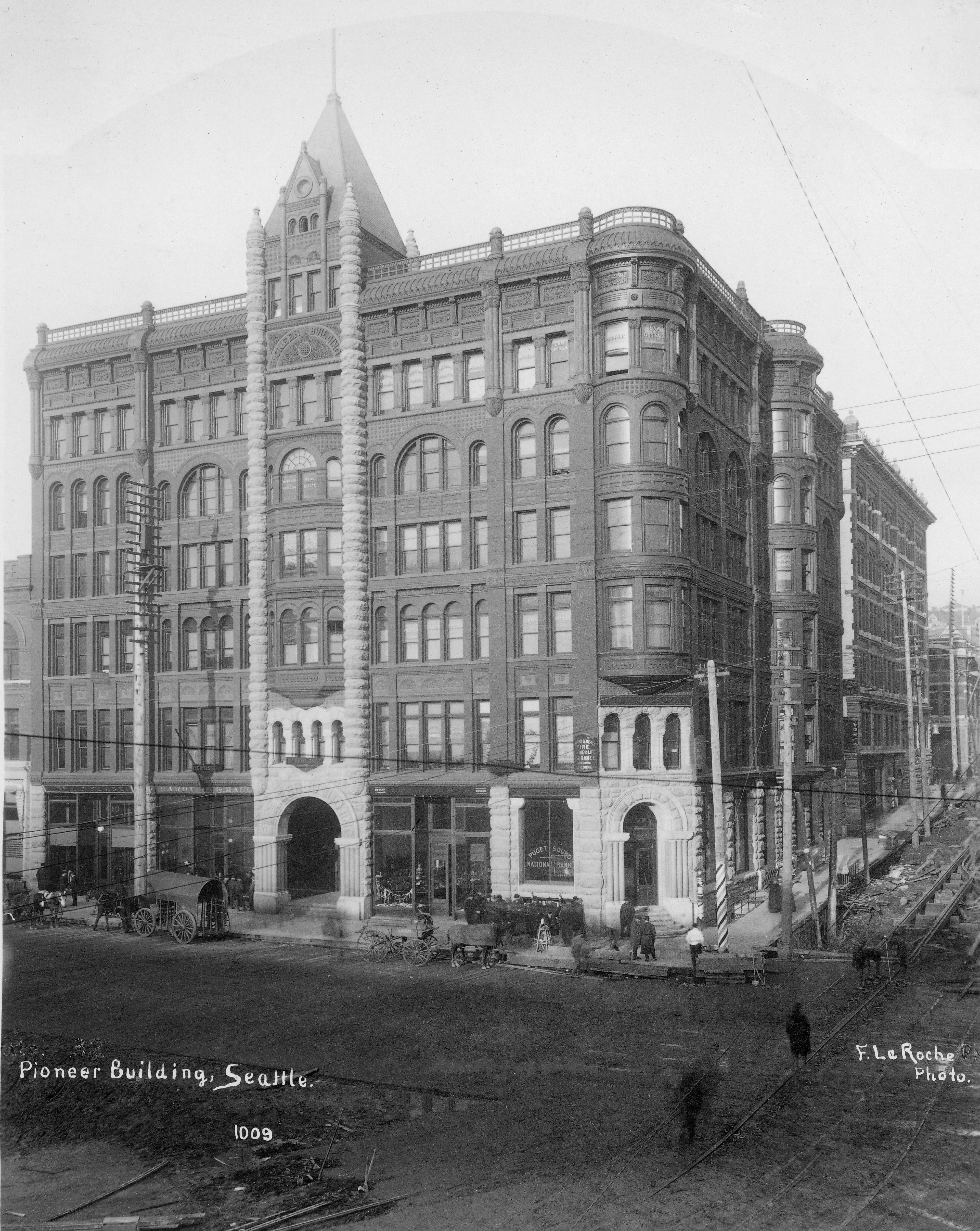 Caption on image: "Pioneer Building, Seattle" Possibly construction of the Lake Washington Cable Railway Company (1890) line to Leschi on Yesler Way to the right. Subjects (LCTGM): Streets--Washington (State)--Seattle; Street railroads--Washington (State)--Seattle; Carriages & coaches--Washington (State)--Seattle Subjects (LCSH): Pioneer Building (Seattle, Wash.); First Avenue (Seattle, Wash.); Lake Washington Cable Railway Company (Seattle, Wash.)